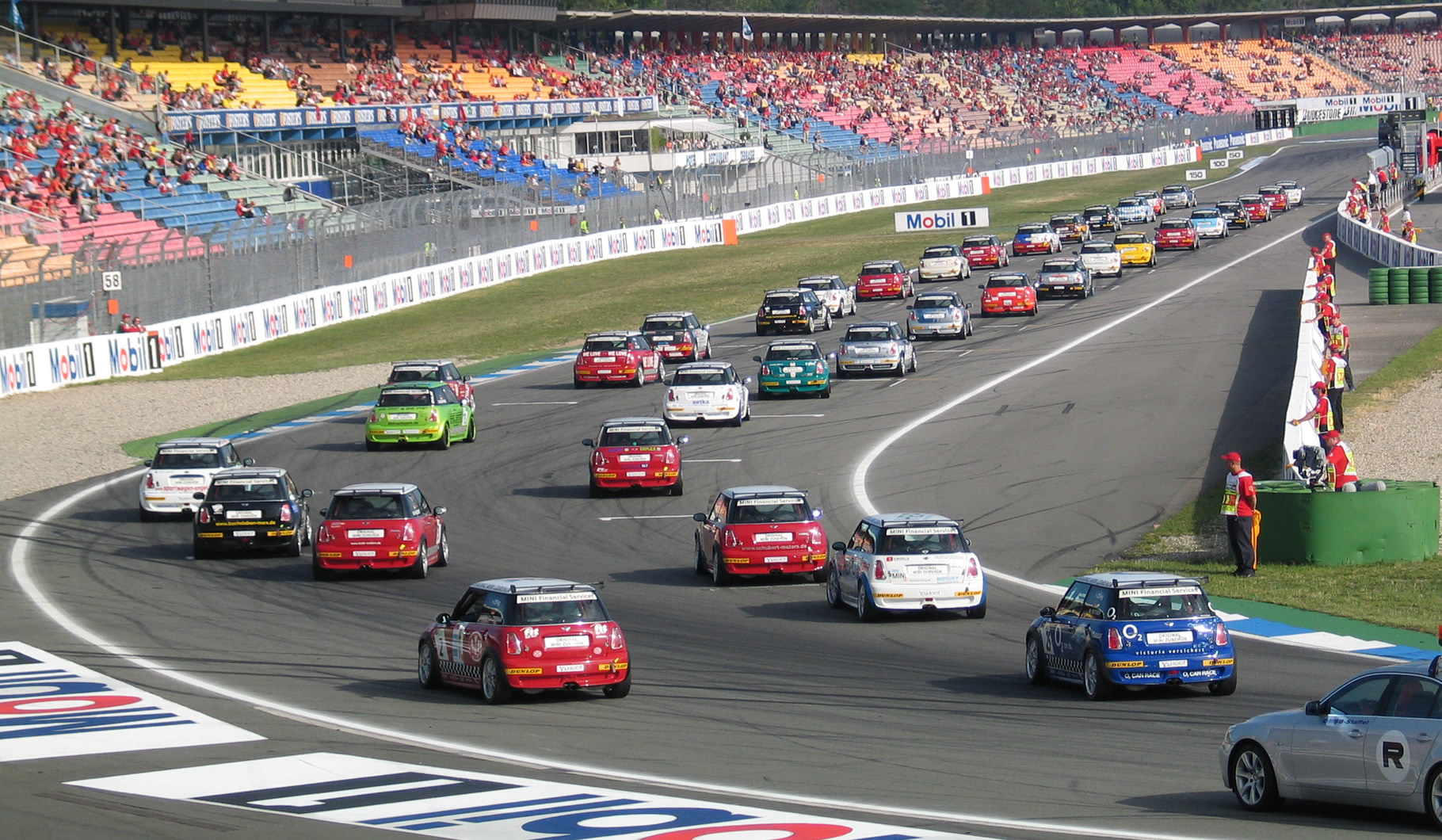 Mini Challenge at the Hockenheimring 2005